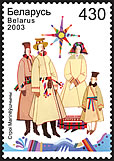 Costumes of Mogilev region